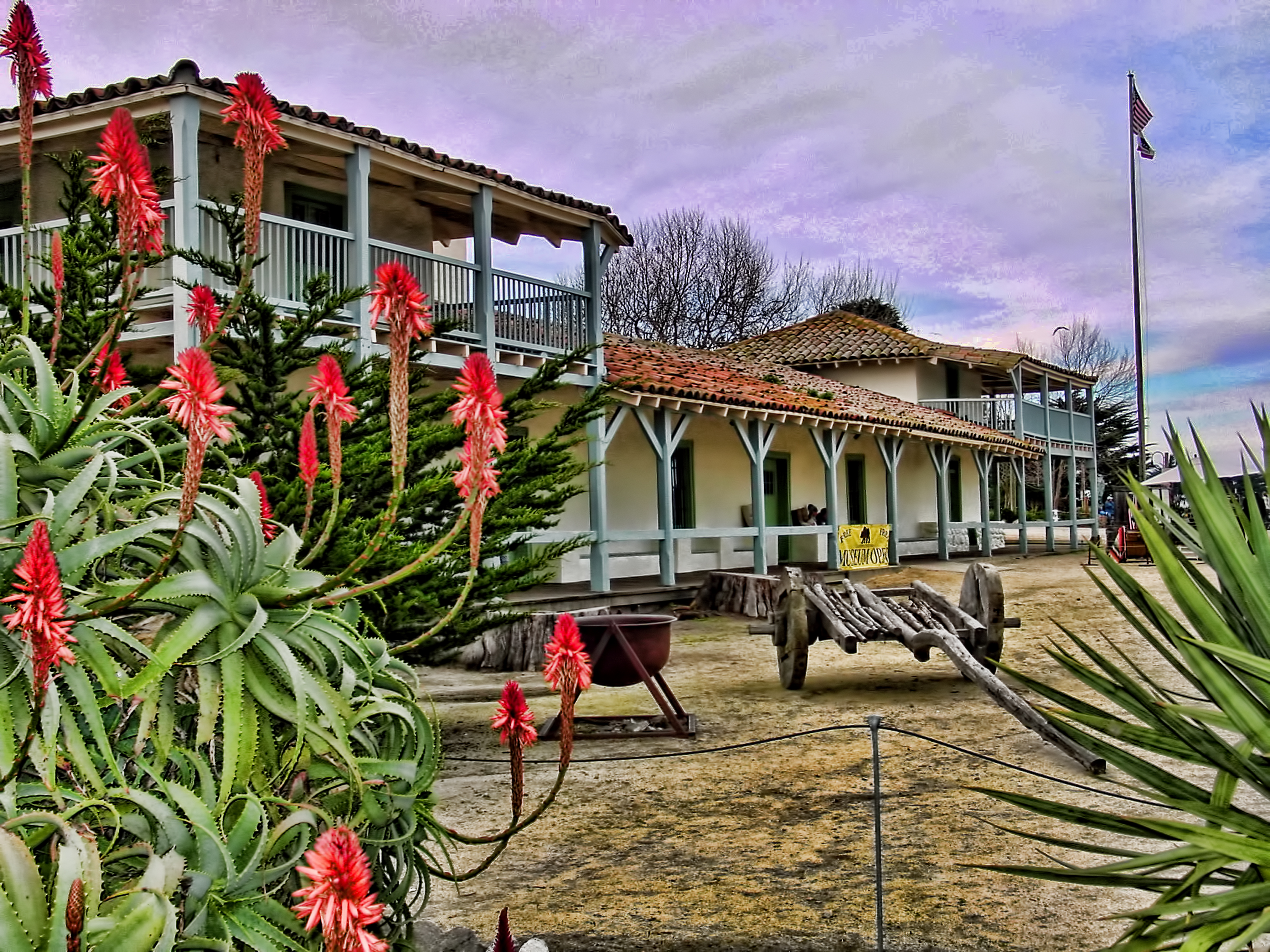 Custom house